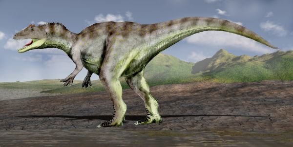 Saurophaganax